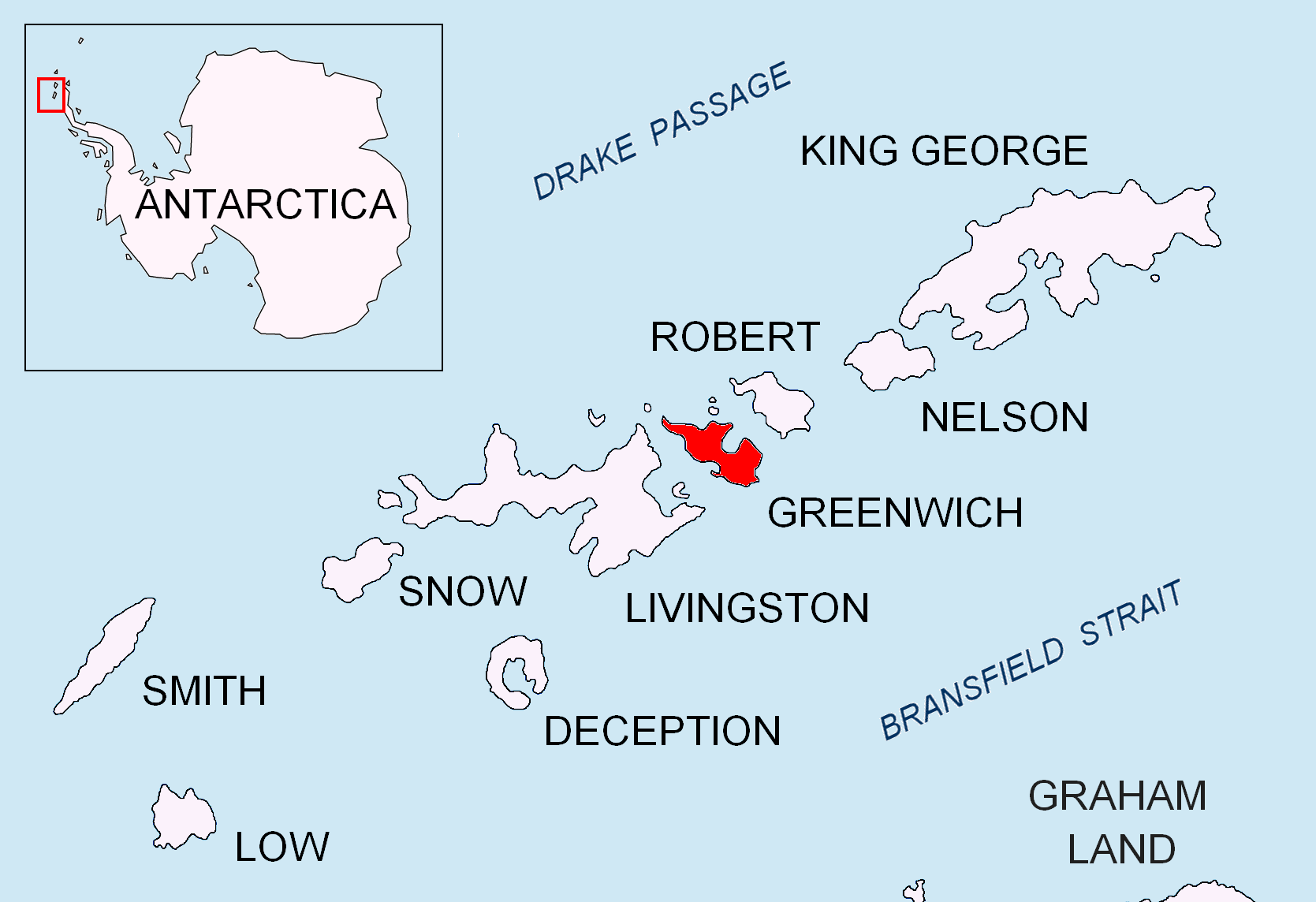 Location map of Greenwich Island in the South Shetland Islands.